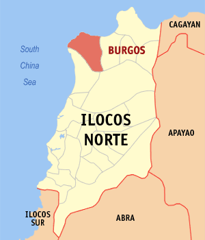 Map of Ilocos Norte showing the location of Burgos